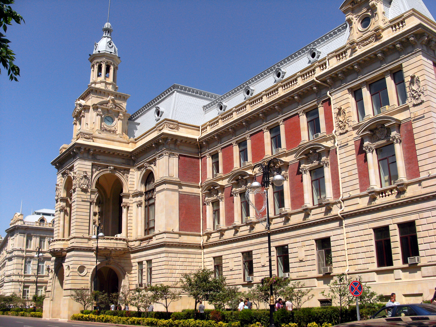 Baku Municipality